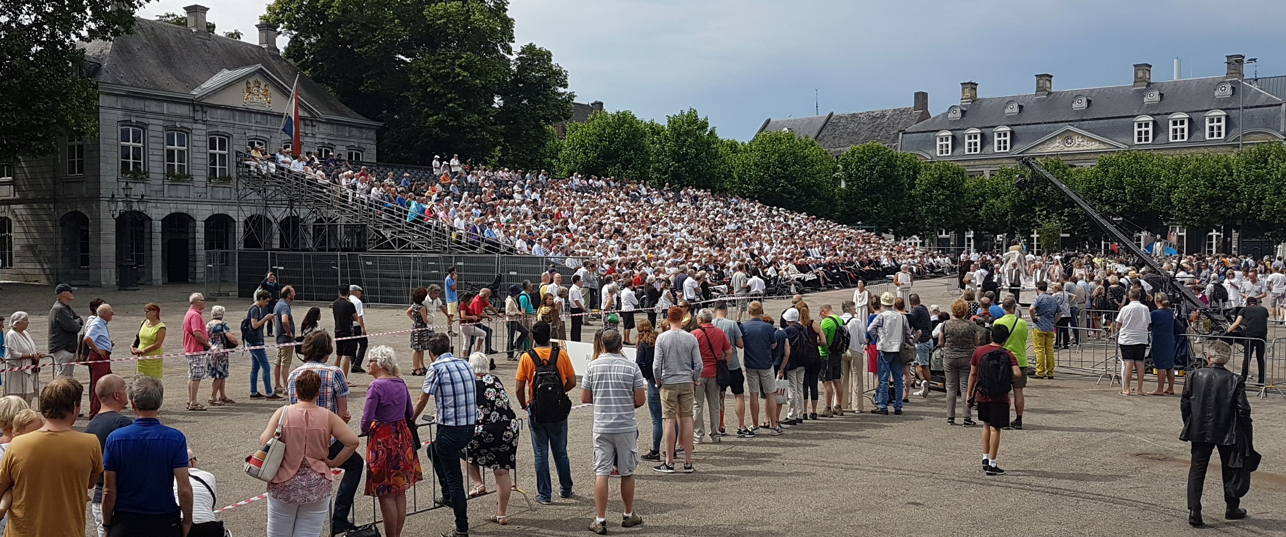 View of a historic religious procession during the 2018 Heiligdomsvaart ("Relics Pilgrimage") in Maastricht, Netherlands. The history of this seven-yearly catholic pilgrimage goes back to the Middle Ages. The first 'modern' version took place in 1874. On both Sundays of the 10-day festival, a procession is held in which the main relics and other devotional objects are exhibited. This photo was taken in Vrijthof square towards the end of the (first) procession on Sunday 27 May 2018.